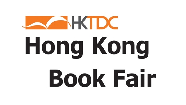 It's an updated Hong Kong Book Fair logo.